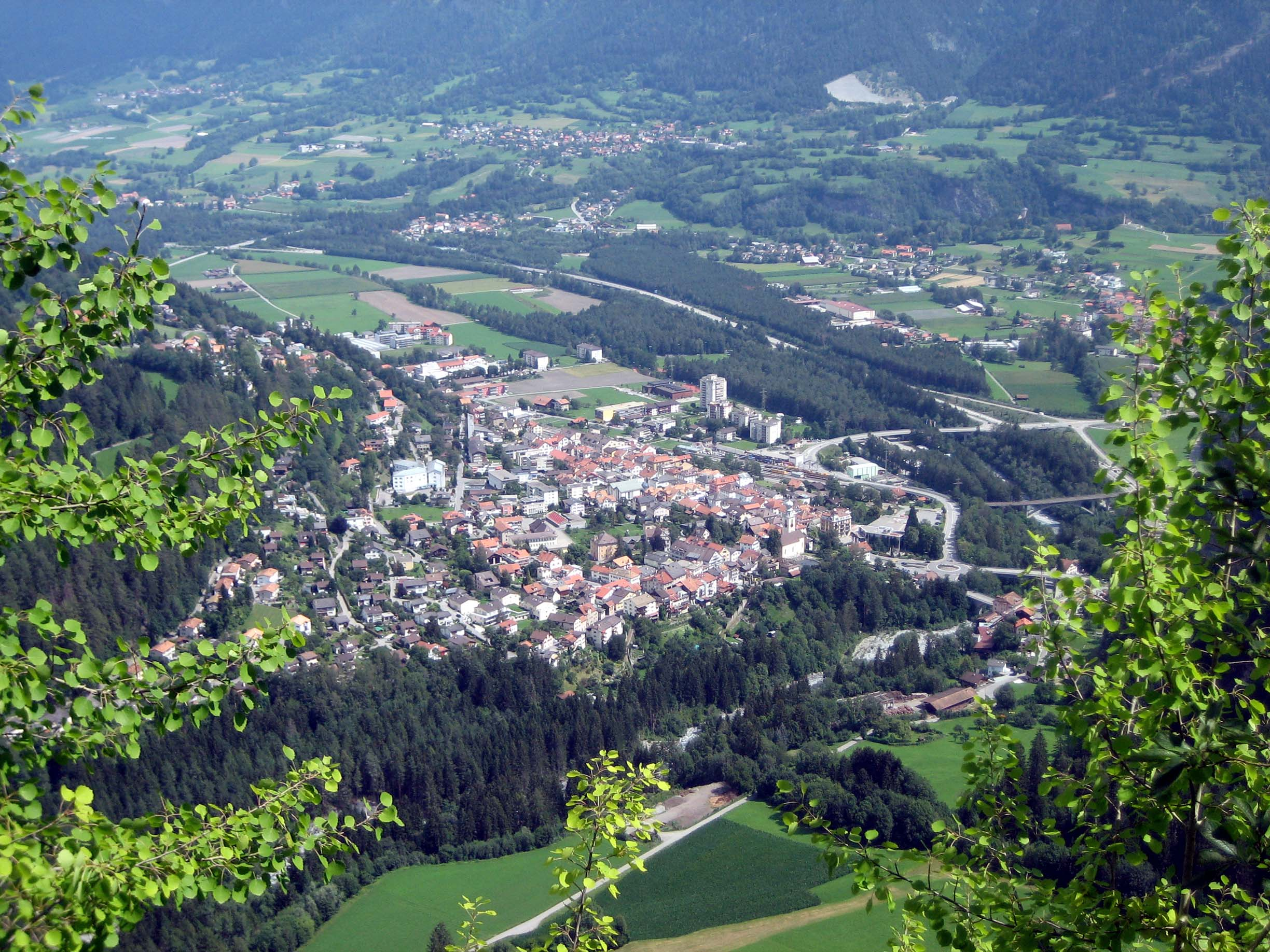 Thusis